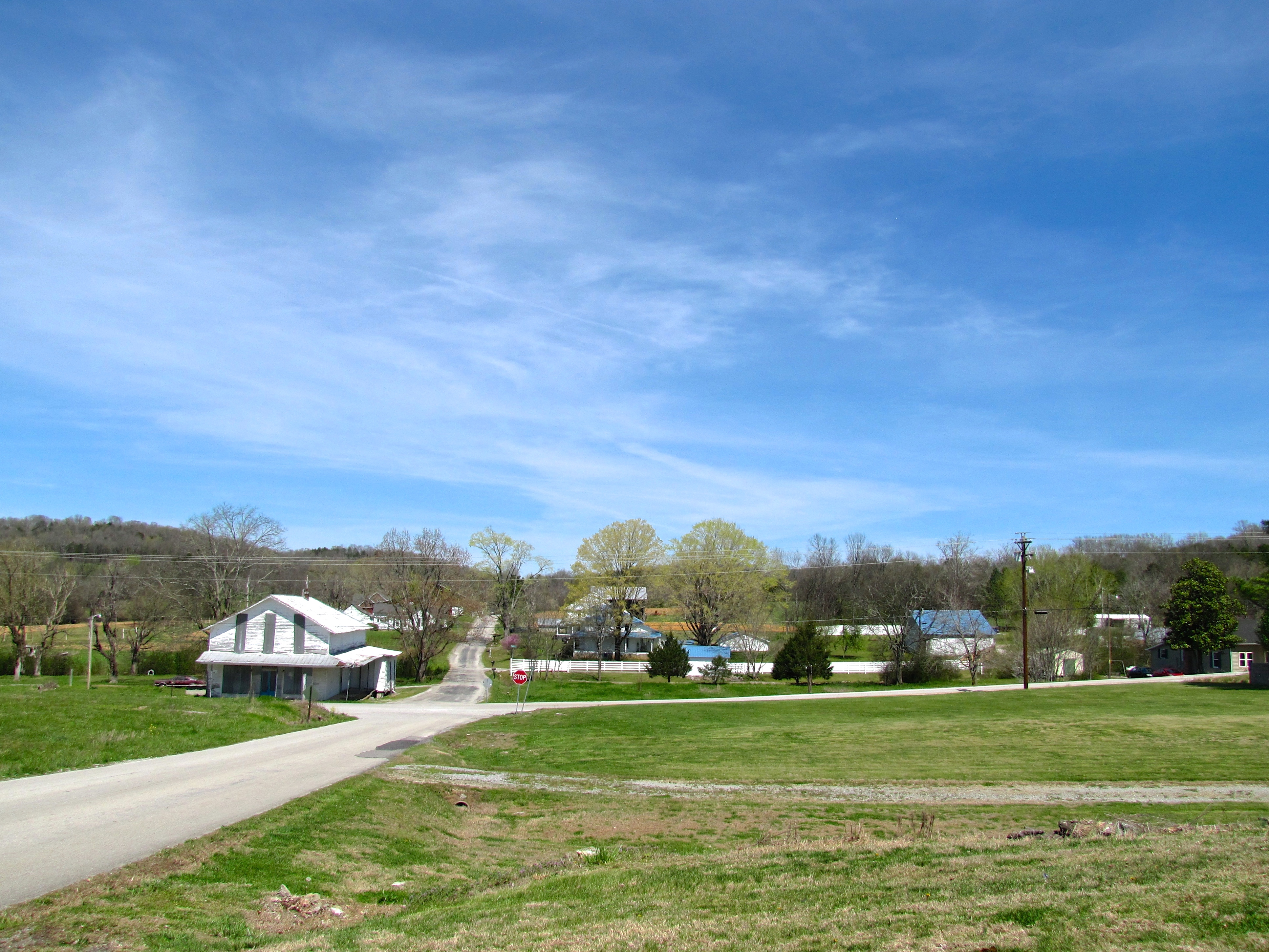 View along Buffalo Road toward its intersection with State Route 85 in Kempville, Tennessee, United States.